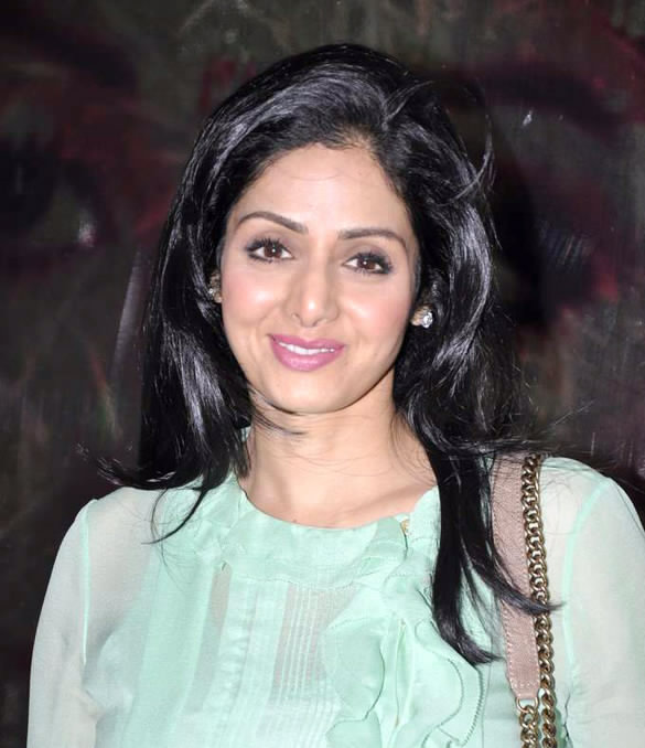 Sridevi at Whistling Woods